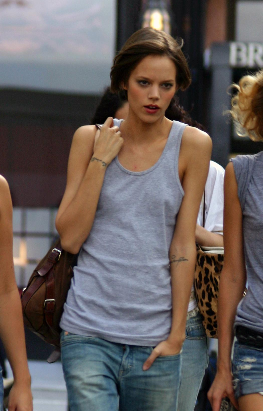 Danish supermodel Freja Beha Erichsen in Bryant Park, New York City during Mercedes-Benz Fashion Week, September 2007